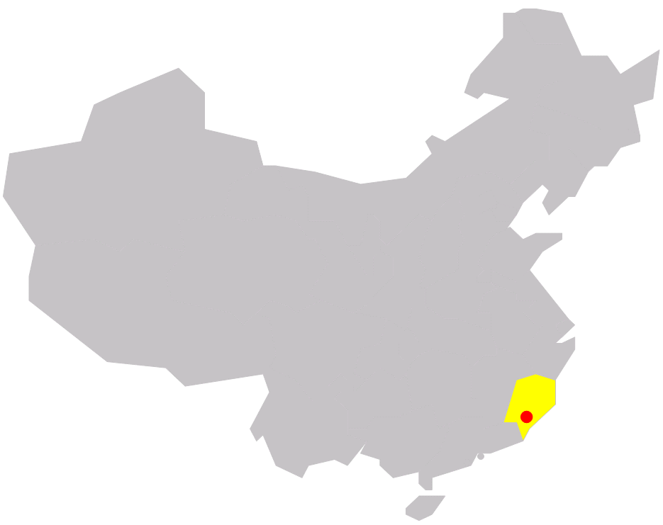 Description: position of Zhangzhou in China Source: own work Date: December 2005 Author: --Immanuel Giel 13:31, 15 December 2005 (UTC) Other versions: none